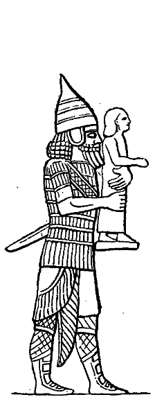 An illustration from the Encyclopaedia Biblica, a 1903 publication which is now in the public domain. Picture 1 for article "Greaves". Image of an Assyrian warrior with a captured idol. The biblical greaves of Goliath probably resembled the lower leg armour on this warrior.